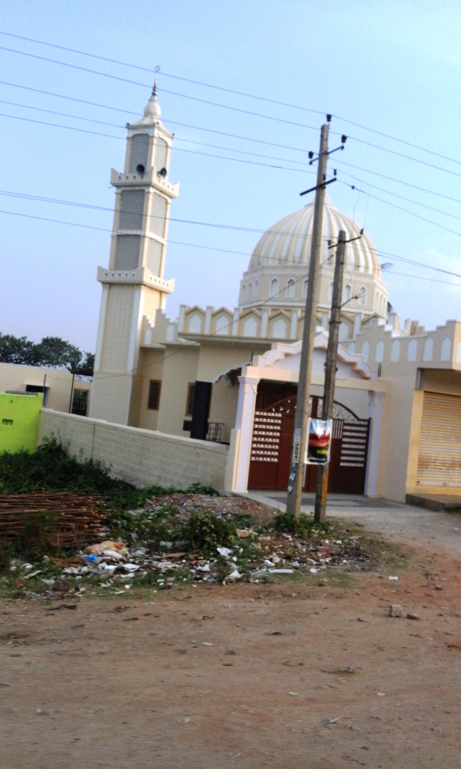 H.D.Kote Taluk, Mysore district, Karnataka province, India